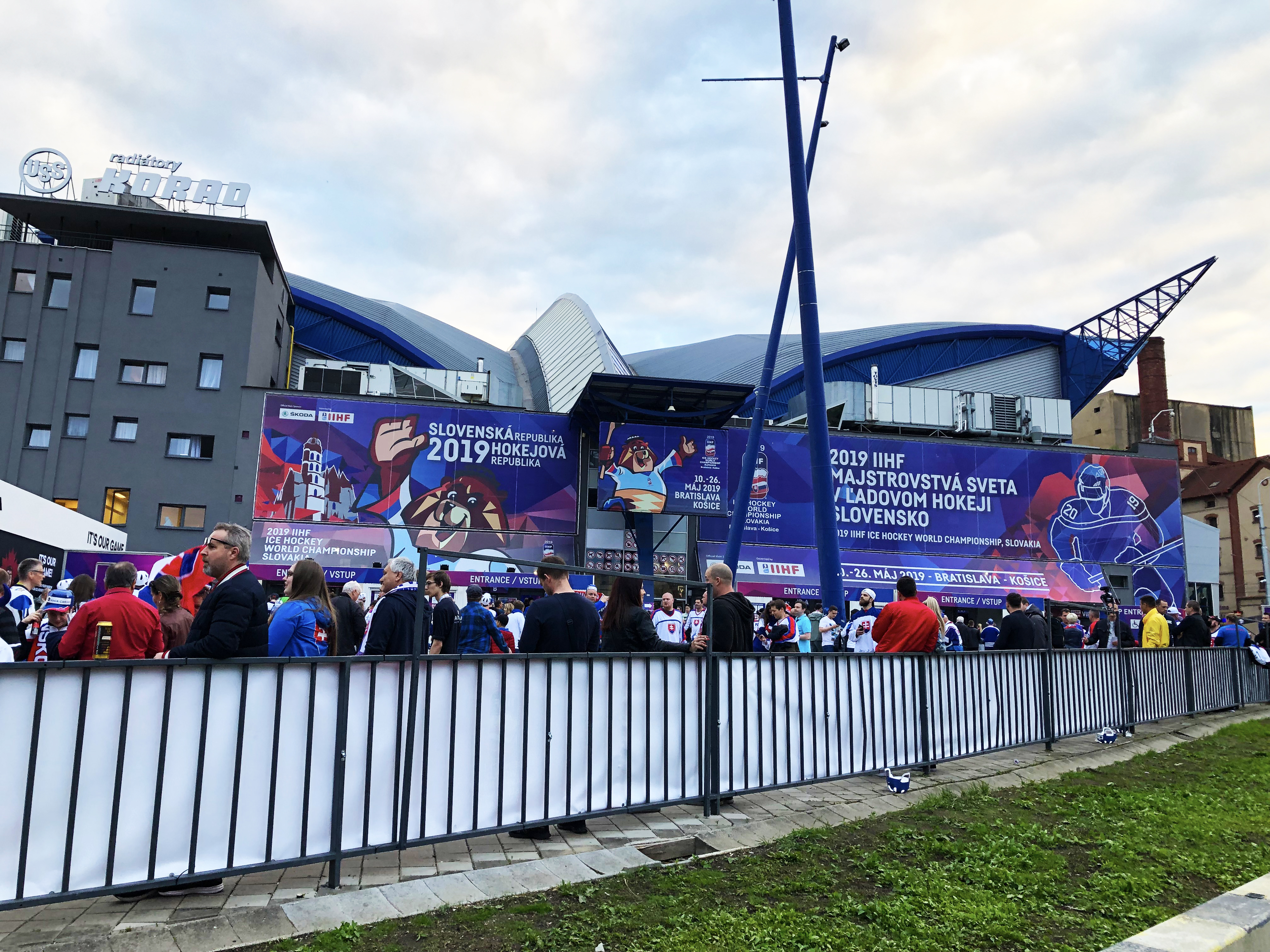 Front view of Steel Arena in Košice, before the Slovak match, during 2019 IIHF World Championship